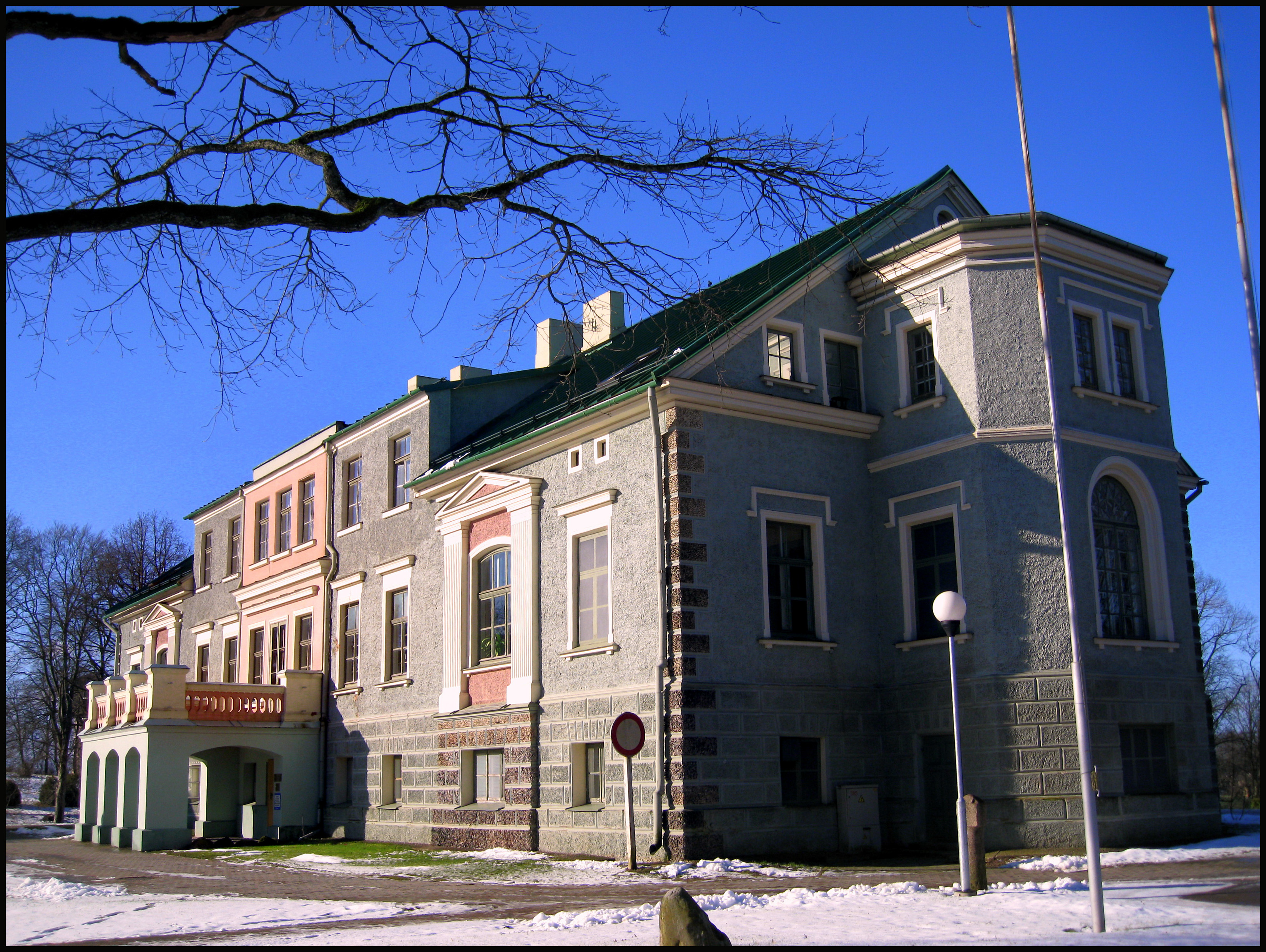 Firck PalaceLatviešu: Firksa muižas pils